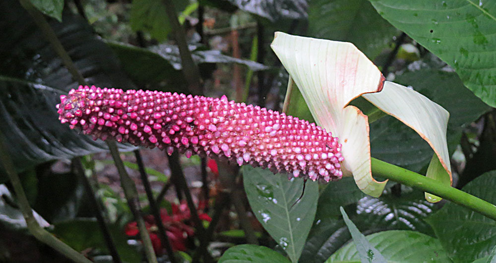 Native to the northern Neotropics. Photo from the Omaere Etnobotanical garden, Puyo, Ecuador.